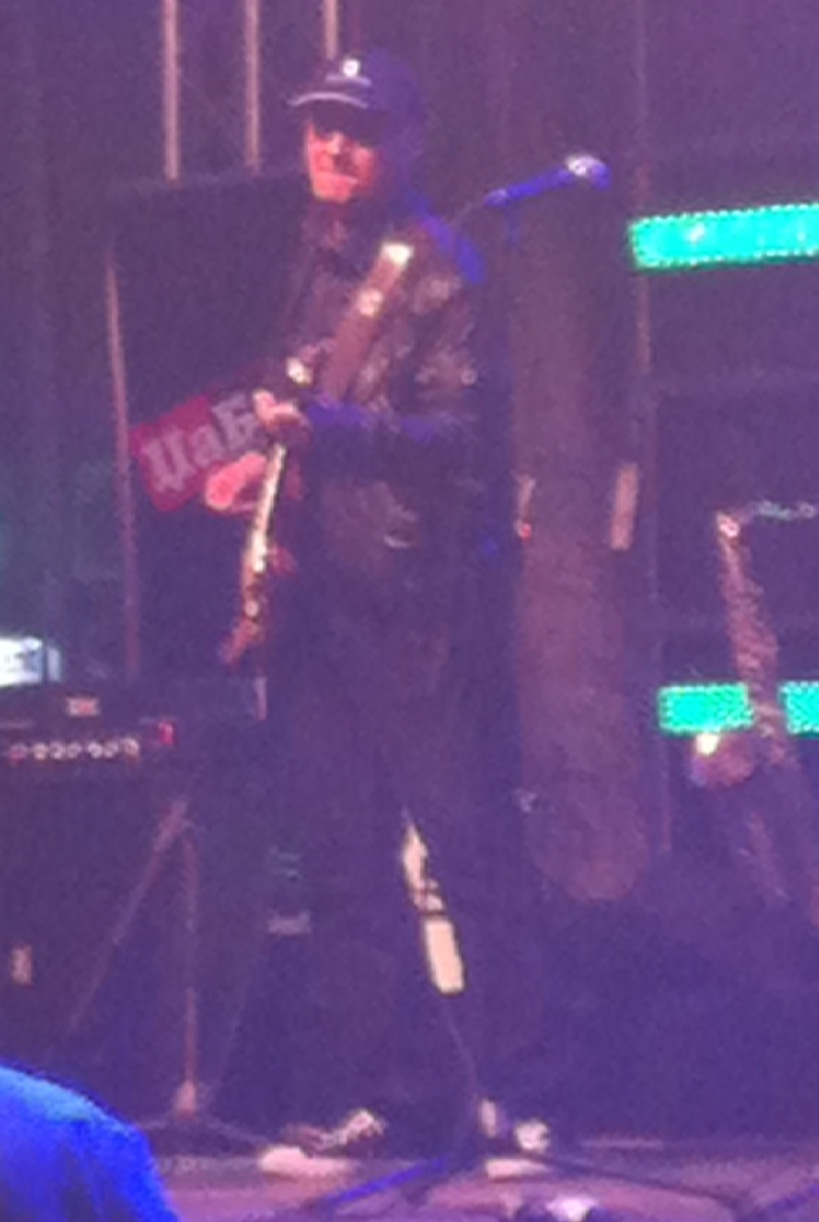 Macedonian guitar player Vlatko Stefanovski during a concert in Kumanovo.